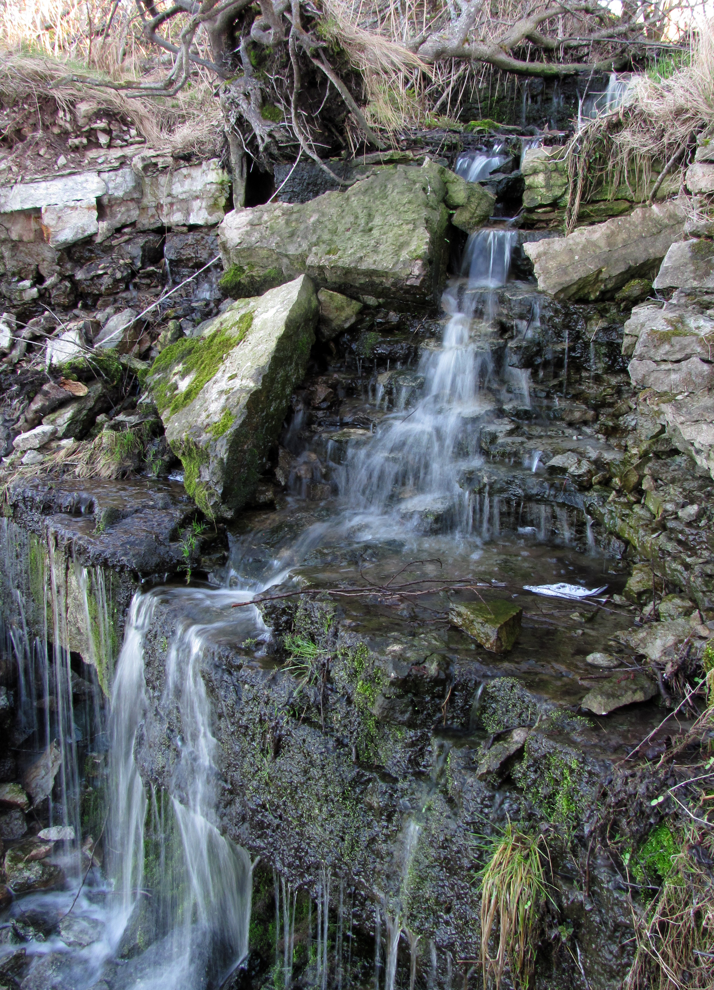 Kersalu waterfall, Pakri peninsula, Estonia